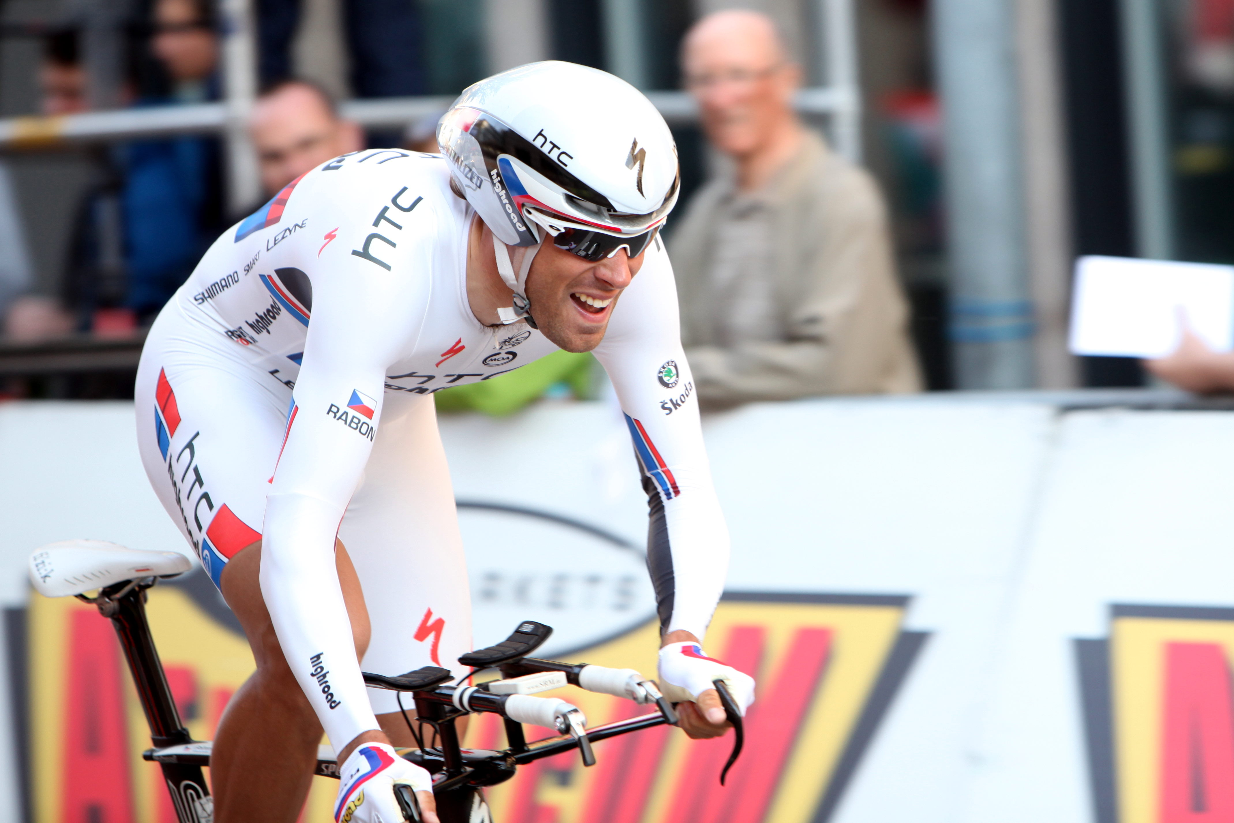 František Raboň at the prologue of the Tour de Romandie 2011